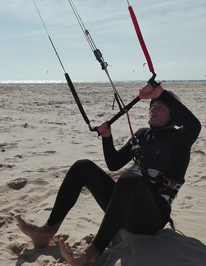 A Graykite kitesurfing student practicing dummy board starts on the beach at Los Lances, Tarifa, Spain